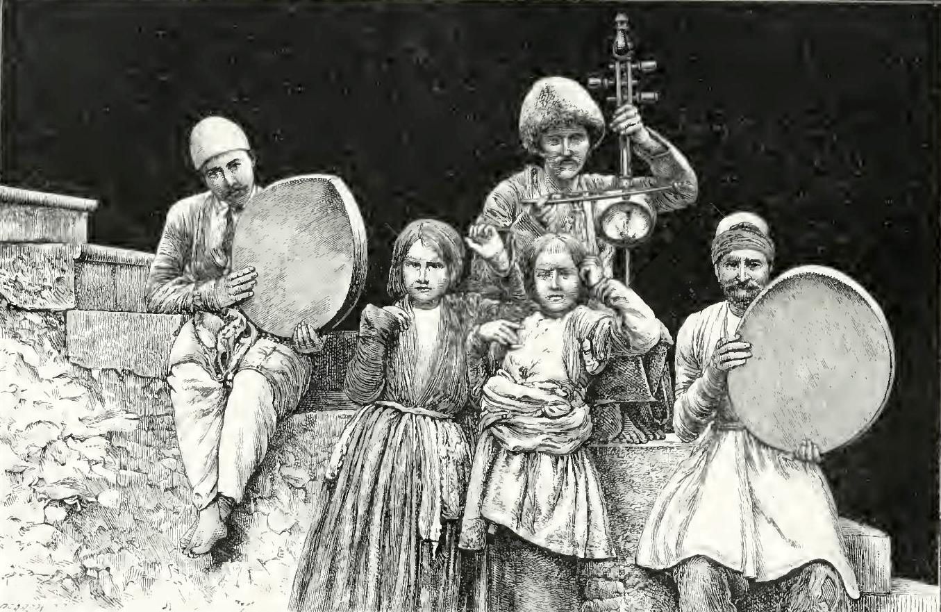 Persian gipsy musicians in Svaneti.